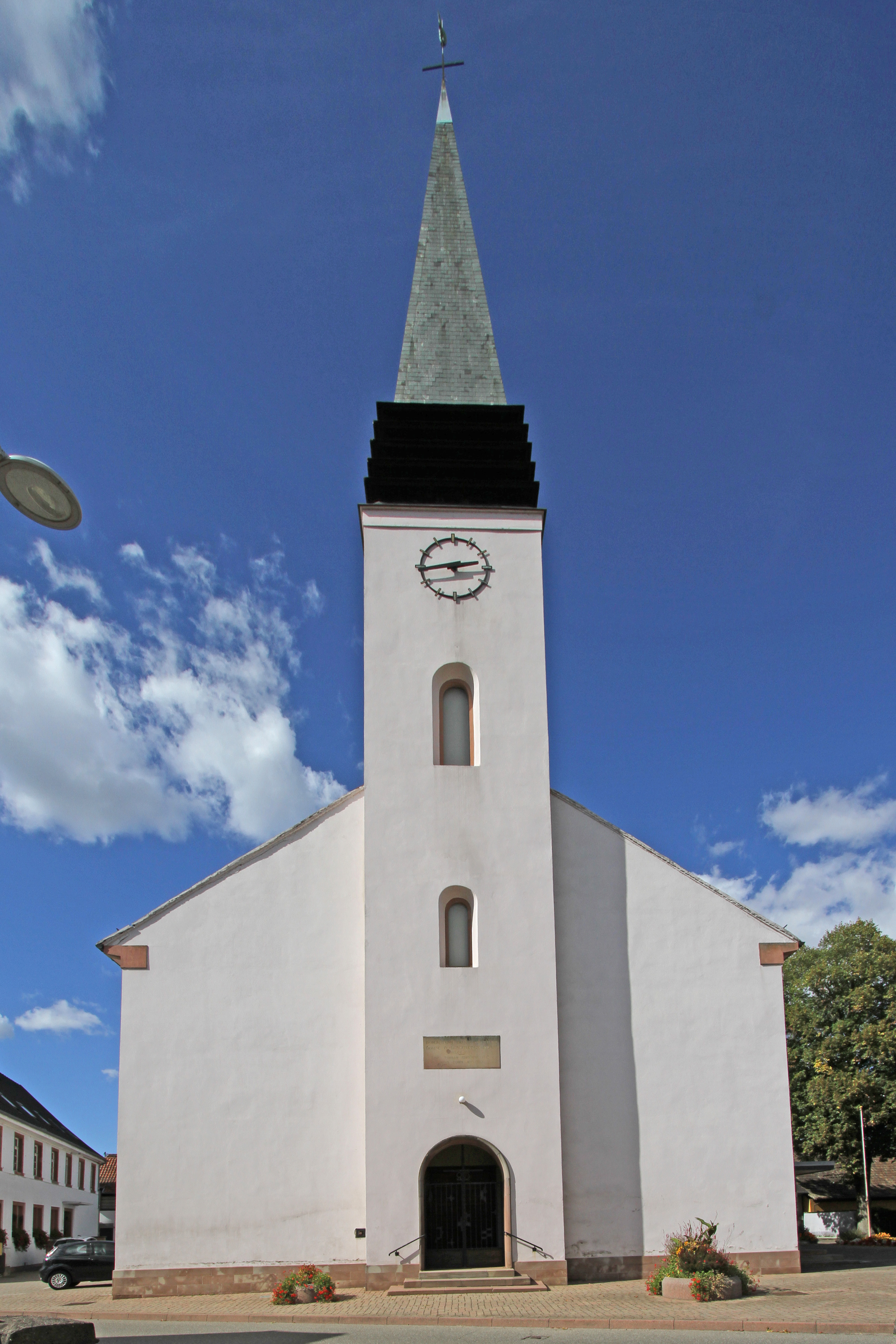 Church of St. Wendelin in Rohrwiller.